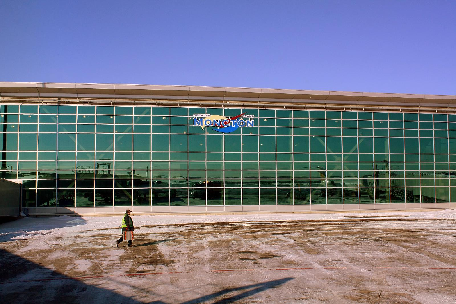 Reflection in Moncton